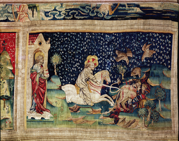 Château d'Angers; Angers; Pays de la Loire, Maine-et-Loire; France; Tenture de l'Apocalypse; no 74, Les bêtes sont gelés dans l'étang de fer; Cultural heritage; Cultural heritage|Tapestry; Europeana; Europe|France|Angers; Hennequin de Bruges (Jan Bondol en flamand); connu également sous les noms de Jean de Bruges ou de Jean de Bondol ou encore Jean de Bandol; ; Ref.: PMa_ANG067_F_Angers